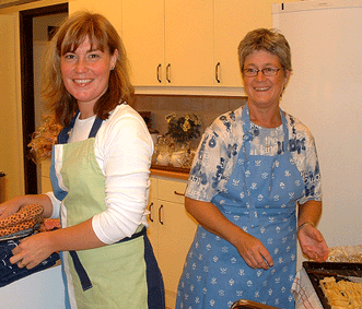 Cooking together at home.